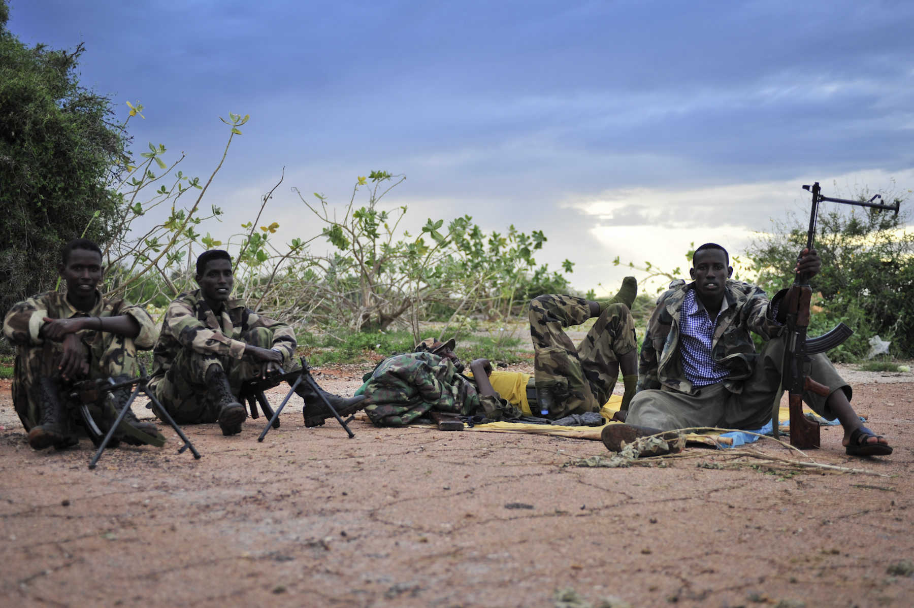 The Ugandan contingent of AMISOM prepares to advance towards Baidoa along with the Somali National Forces at the recently captured Ballidoogole Airbase in sector one. AU-UN IST PHOTO / TOBIN JONES.